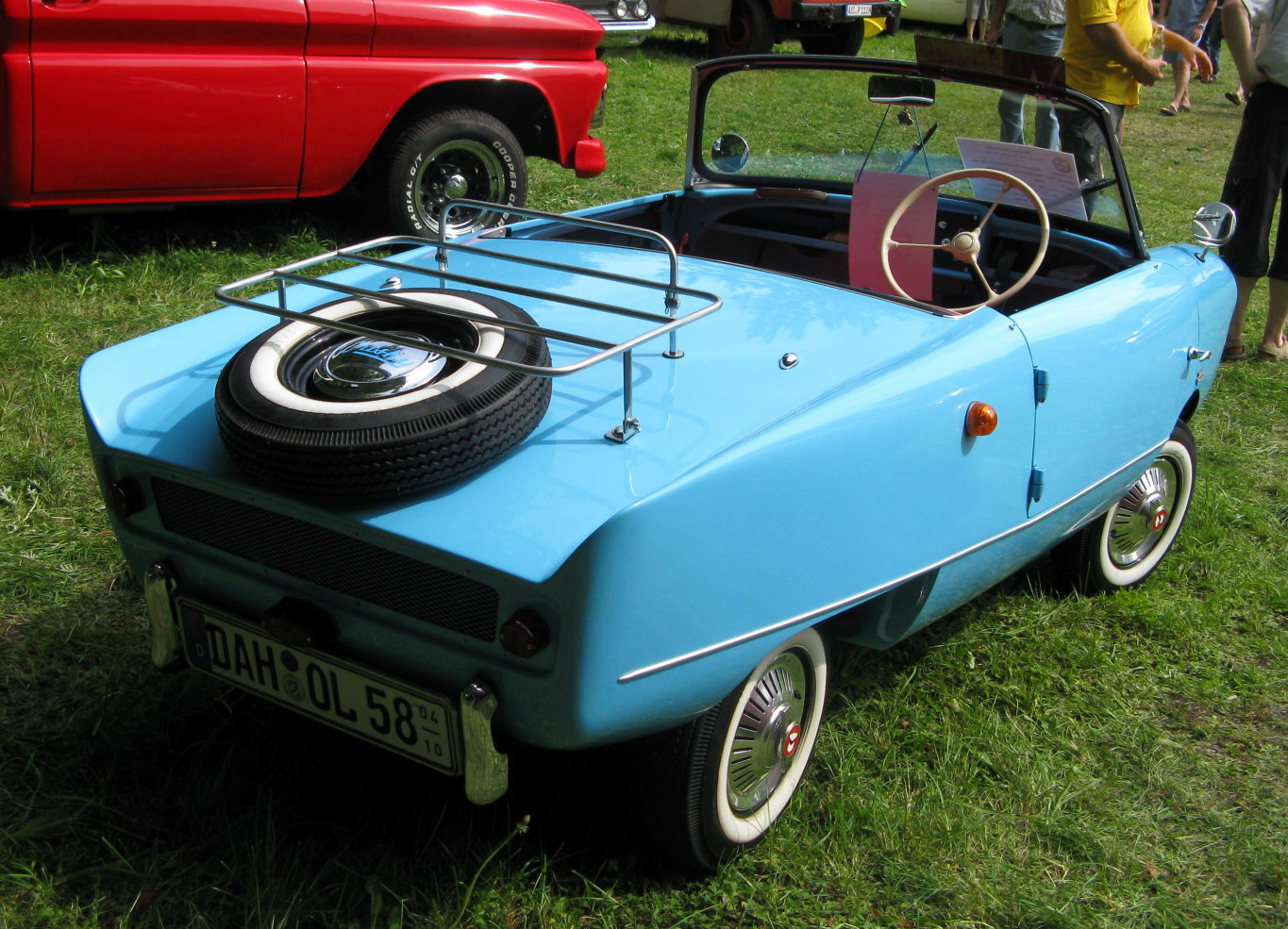 1958 Meadows Frisky-Sport Convertible at Vintage Vehicles Meeting in Mering (Bavaria). Built by Meadows (Wolverhampton) Ltd., UK; 325 cc two-stroke Villiers engine, 17 bhp (10 kW), Top Speed: 56 mph